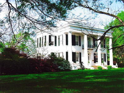 Front view of Reverie (Marion, Alabama)